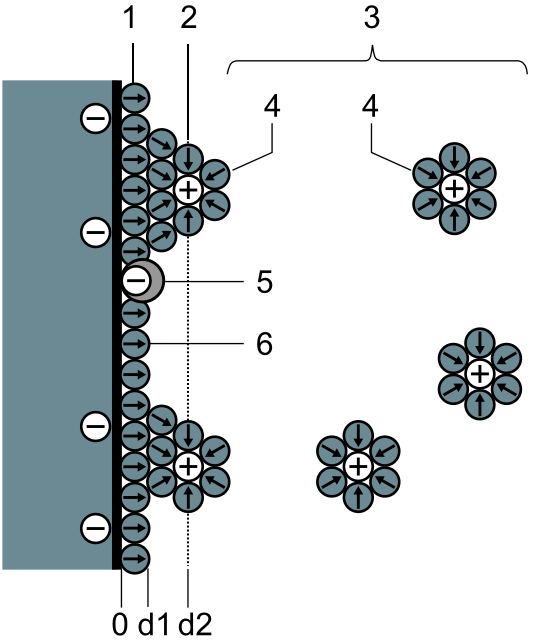 Electric double-layer (BMD model) No text 1.IHP（Inner Helmholtz Layer） 2.OHP（Outer Helmholtz Layer） 3.Diffusion layer 4.Solvated ions 5.Peculiar adsorptive ions 6.Solvent molecule